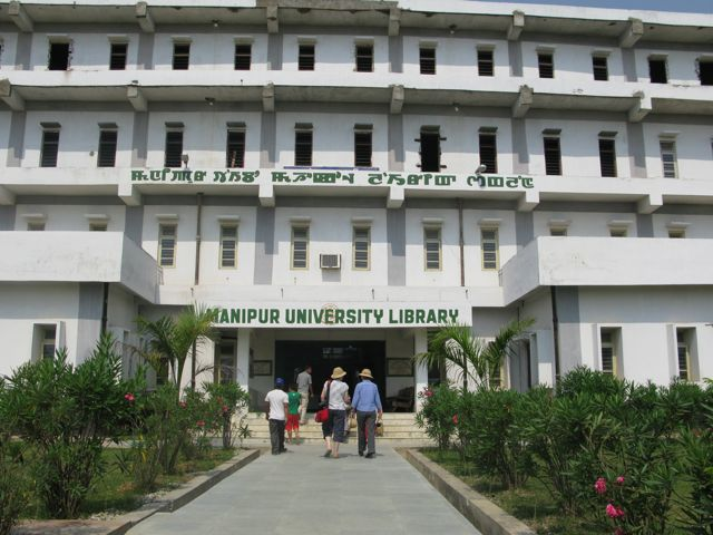 Manipur University libary dept